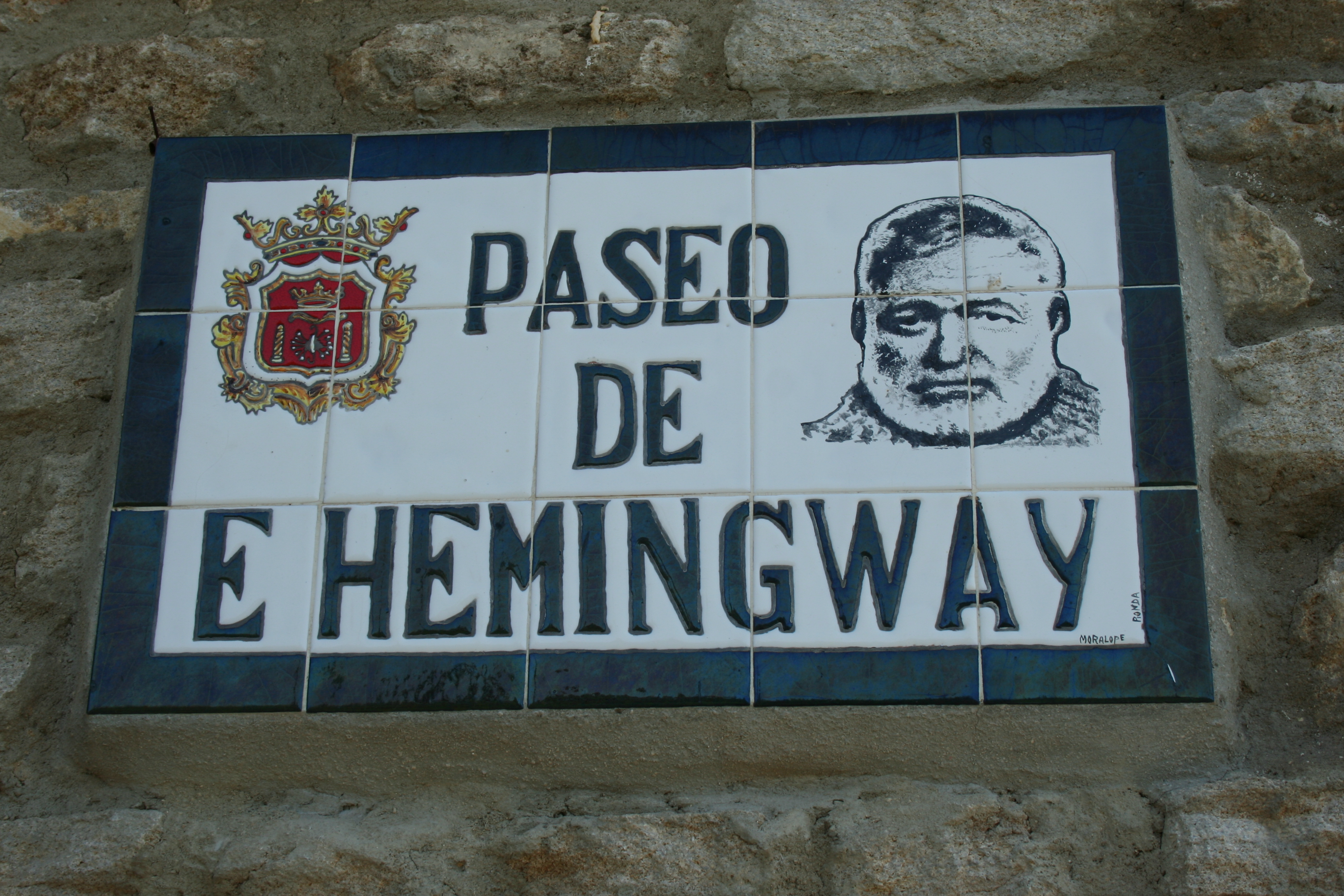 Walkway named for Ernest Hemingway, Ronda, Spain (note my amusing file name!)